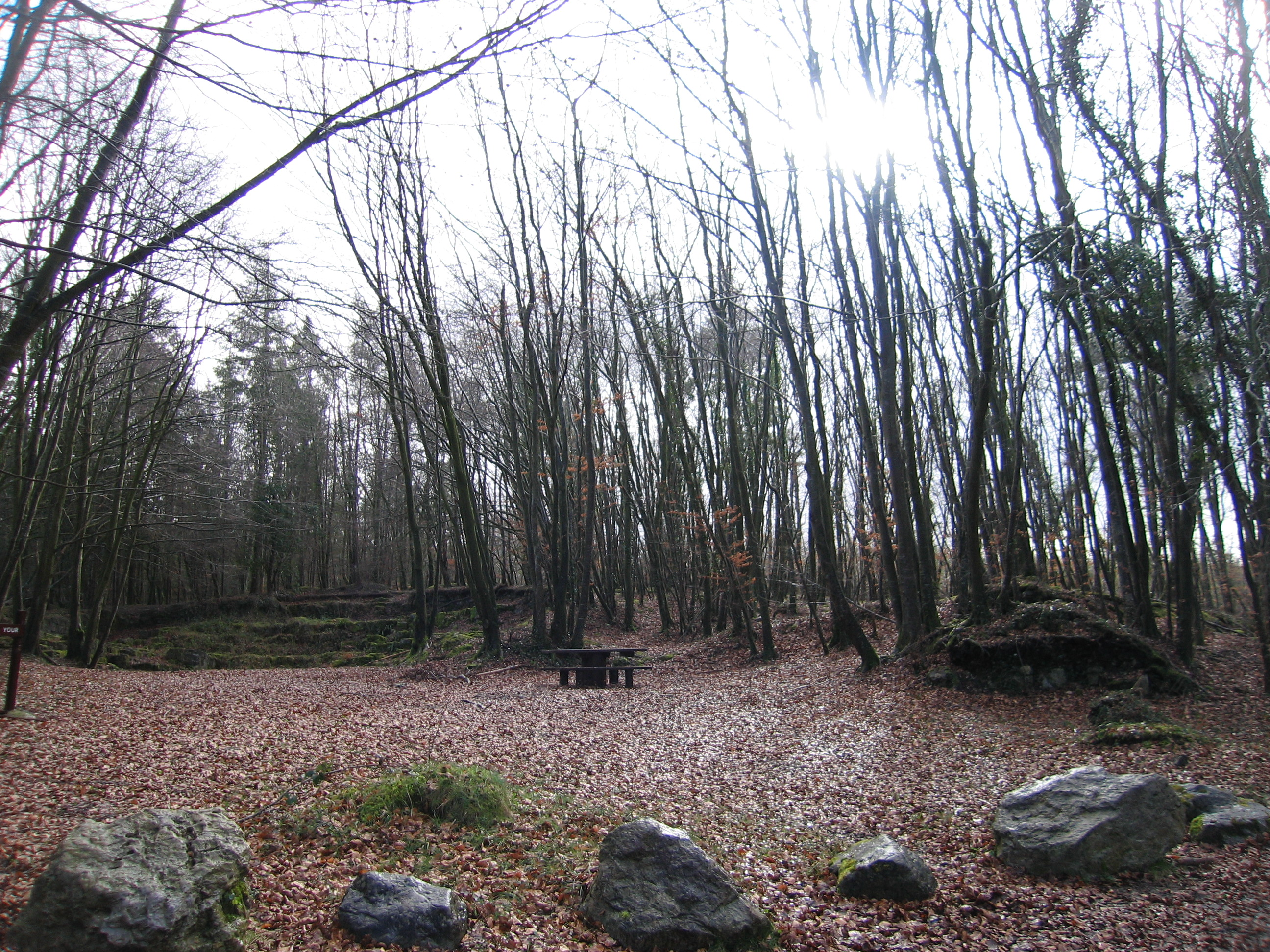 Woodland in the Emo demesne